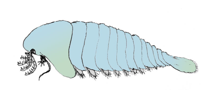 Sanctacaris (Arthropoda: Chelicerata: Megacheira).